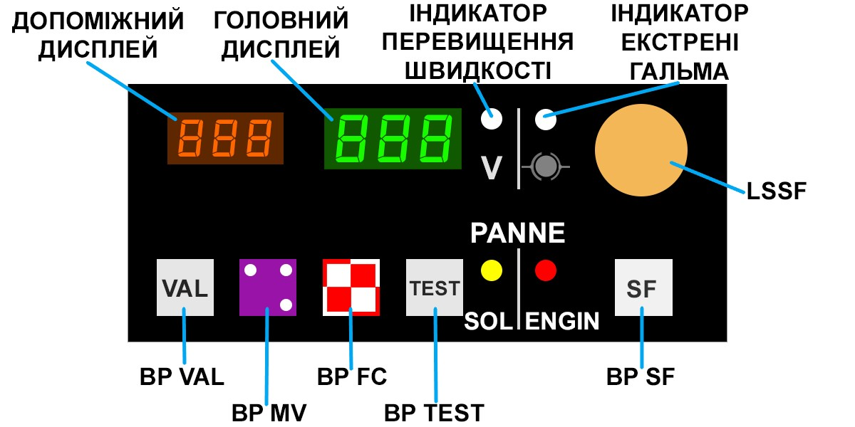 KVB PANNEL UKR